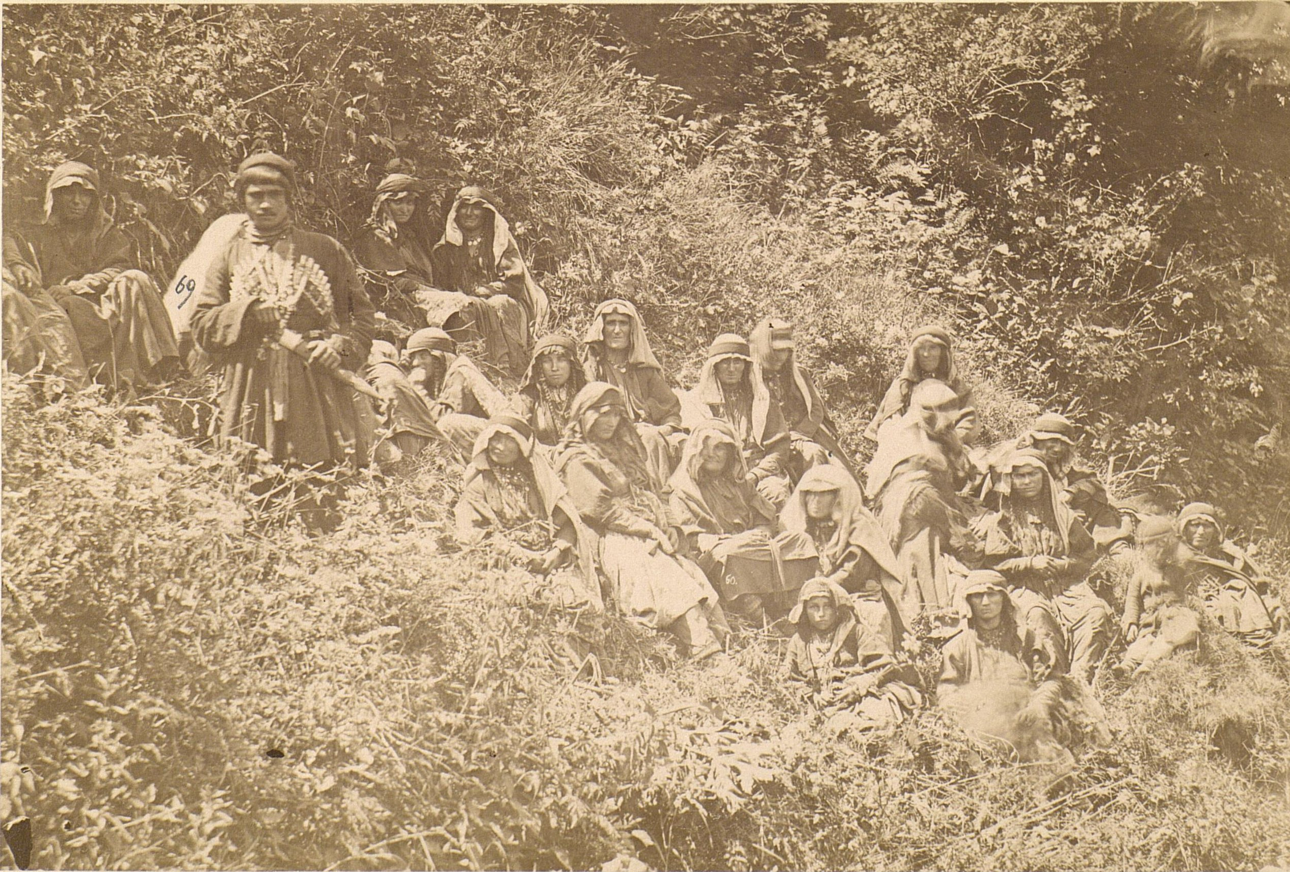 Pshav women in early photograps of D. Ermakov